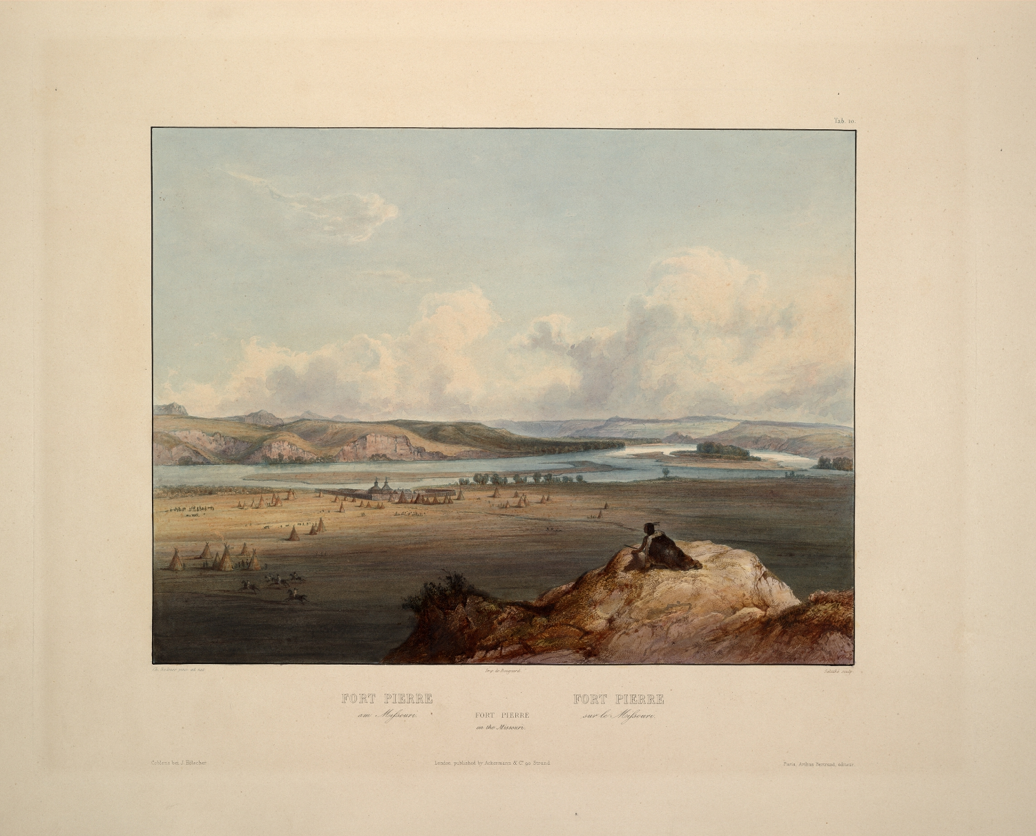 Aquatint by Karl Bodmer (1809 - 1893)